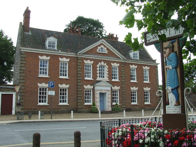 Oakleigh House Swaffham ( Market Shipborough). Oakleigh House market place Swaffham Norfolk that also doubles as the home and office of Kingdom from the ITV tv series of the same name. The village sign in the foreground will have the name Market Shipborough stuck over the top. For other view see 891369